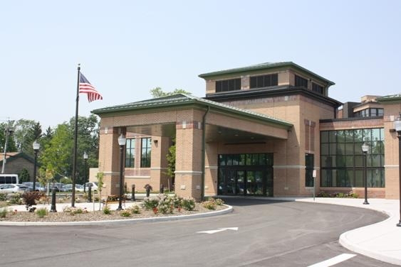 Photograph of United Memorial Medical Center, an affiliate of Rochester Regional Health